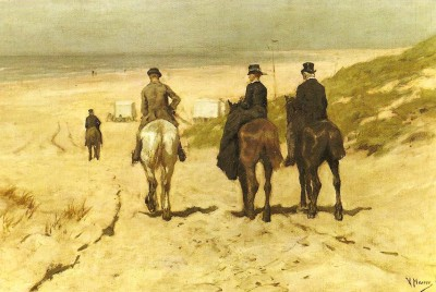 Ochtendrit op het strand, before restauration of 1991